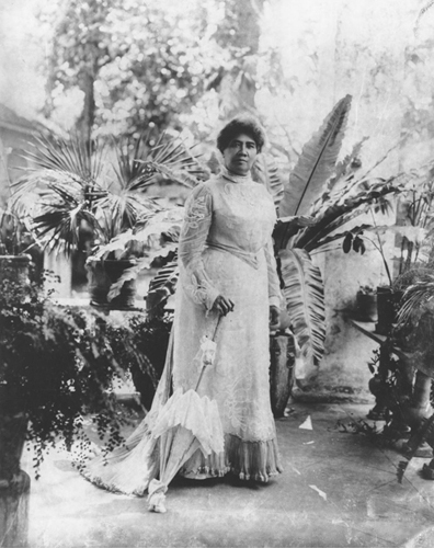 Queen Liliʻuokalani, holding parasol, pose for a picture at Washington Place.